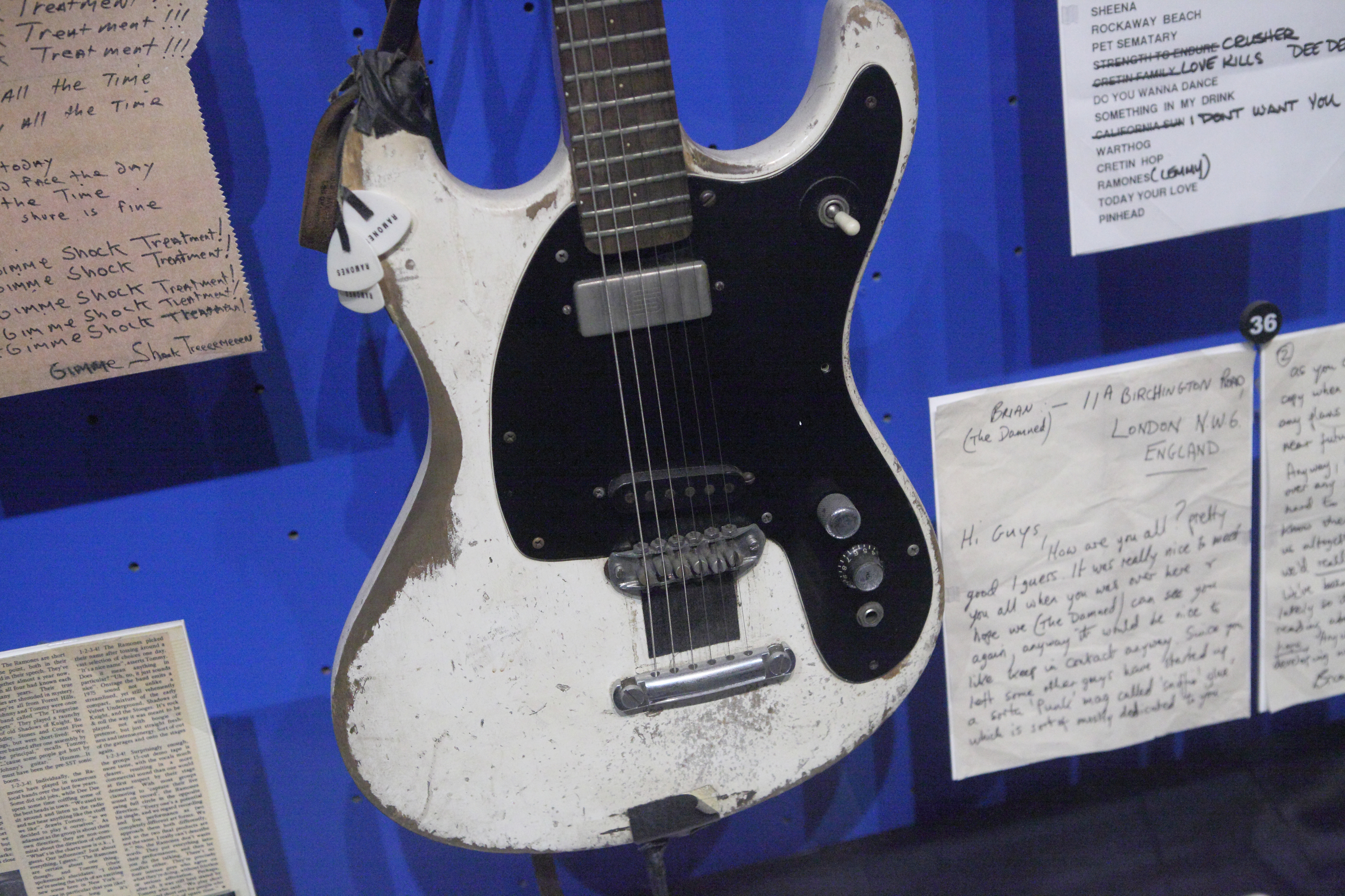 Guitar at the Rock and Roll Hall of Fame in Cleveland, Ohio. Flickr Tags: ohio guitar cleveland instrument rockandrollhalloffame. Flickr Tags: Rock and Roll Hall of Fame Cleveland Ohio. from Flickr album "Rock and Roll Hall of Fame" by Sam Howzit